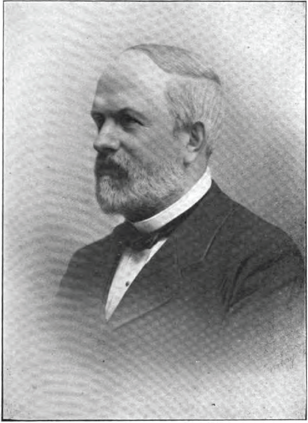 Portrait of Henry P. Kidder, founder of Kidder Peabody & Co. c. 1908.png